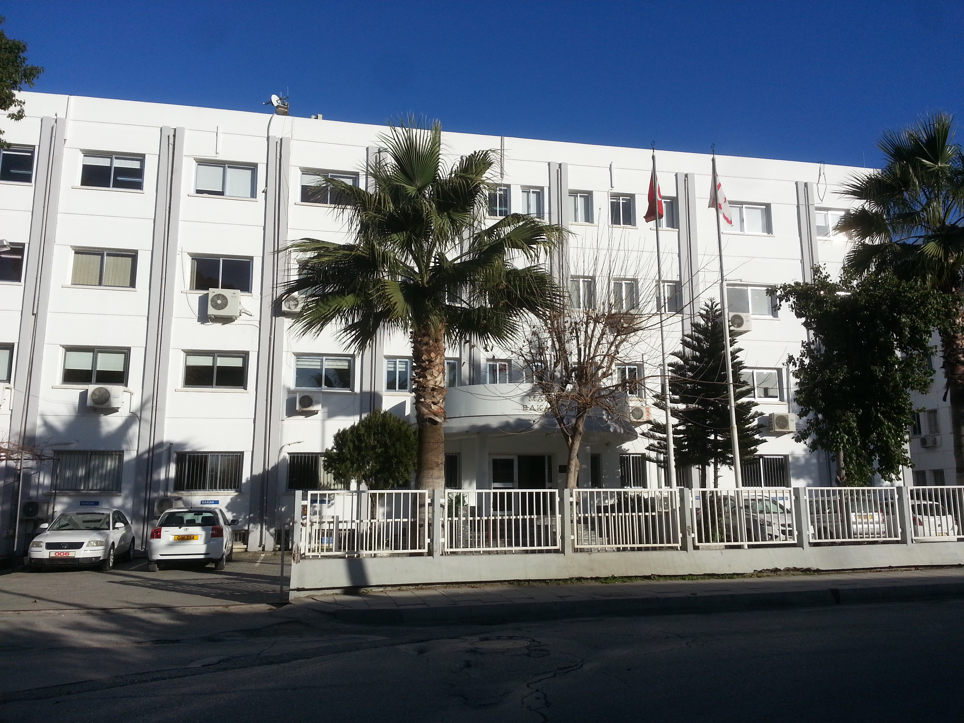 The Ministry of Finance of the Turkish Republic of Northern CyprusTürkçe: KKTC Maliye Bakanlığı